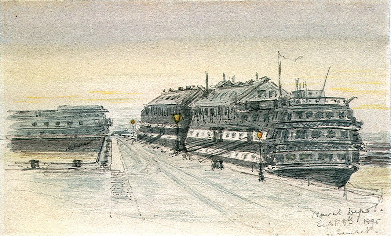 Naval Depot Sept 8th 1895 at Sunset Royal Naval Barracks, Devonport[1] Drawing